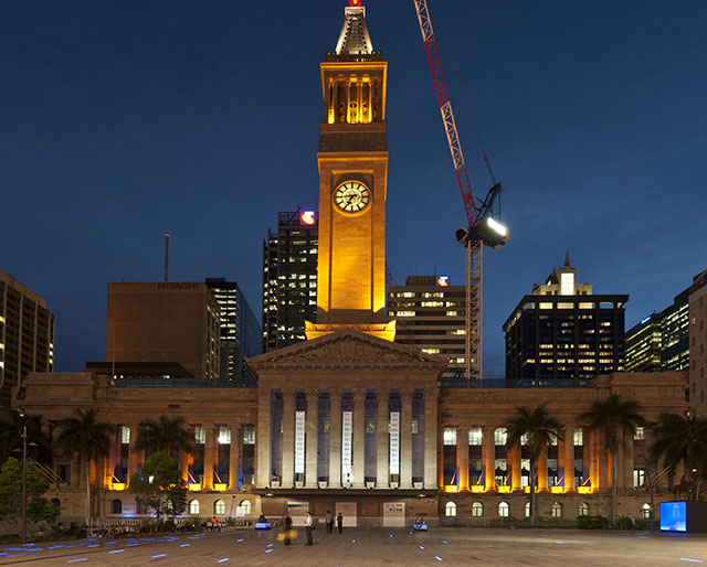 Brisbane Townhall